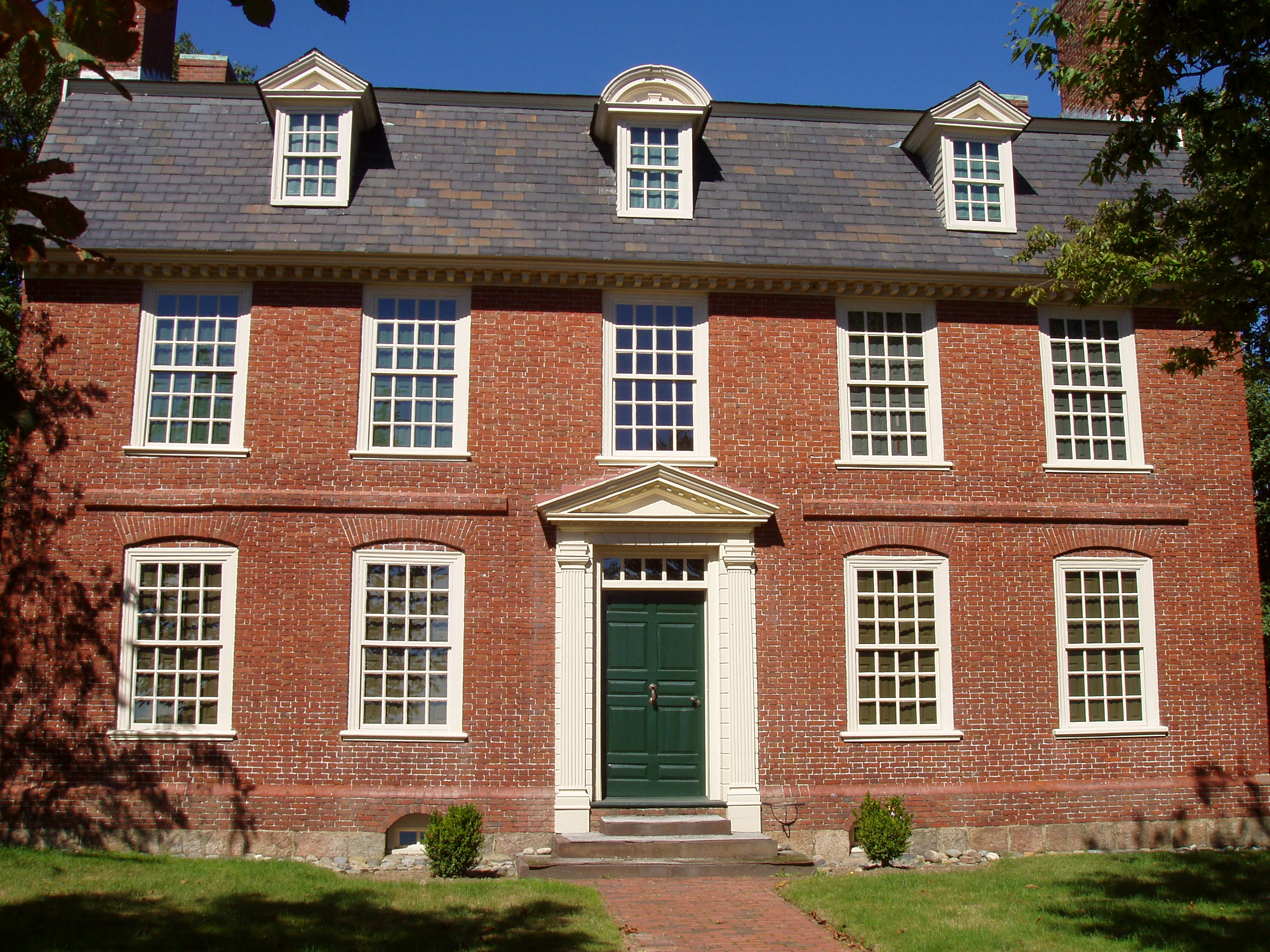 Derby House - Salem, Massachusetts. Photograph taken by me, September 2005.